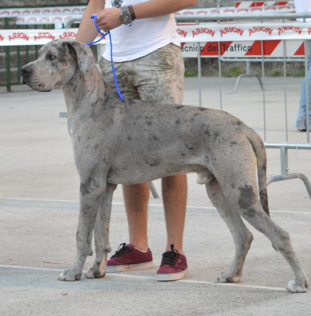 Gratdane